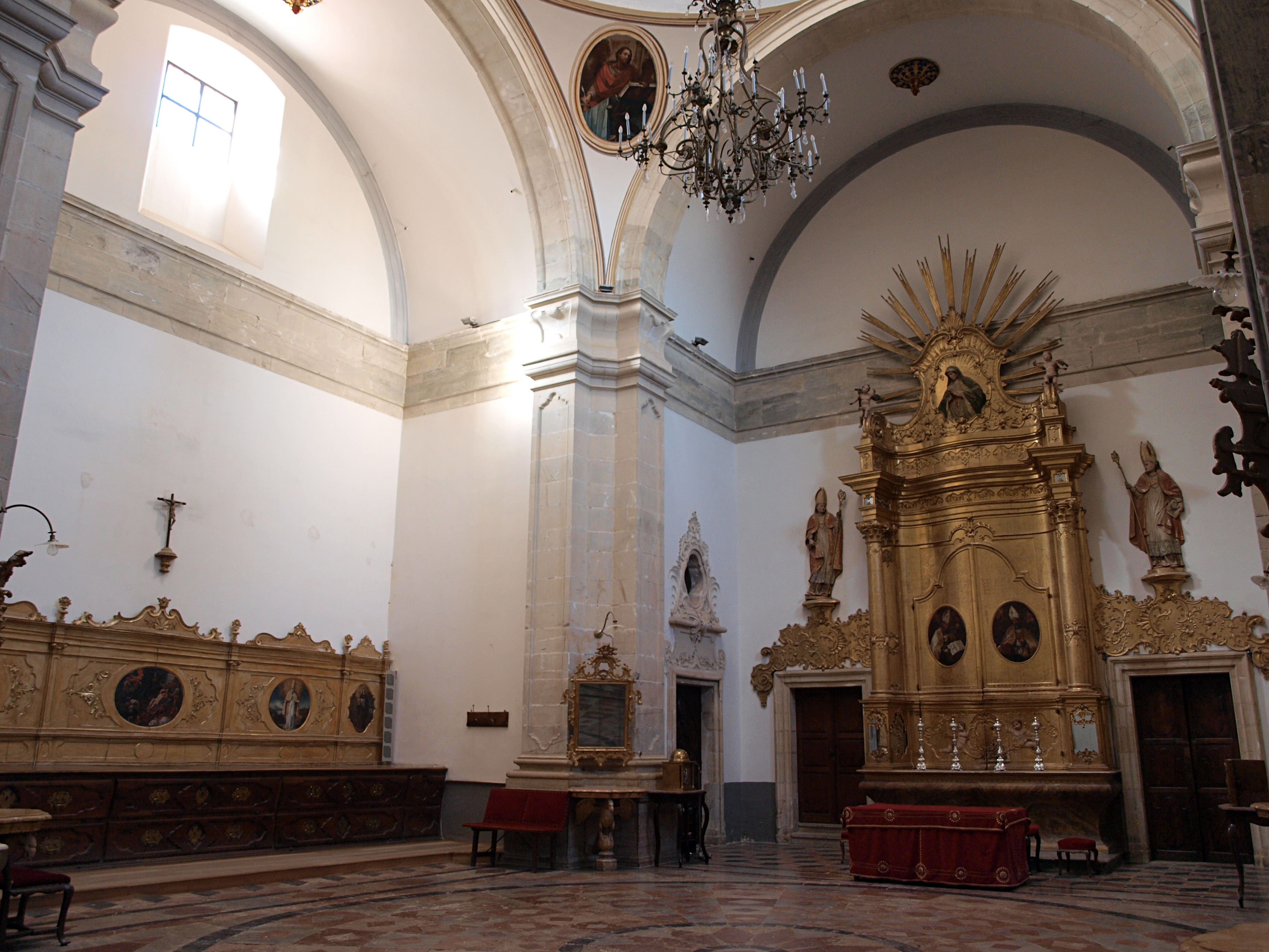 Astorga Cathedral, Astorga (Province of León, Spain).